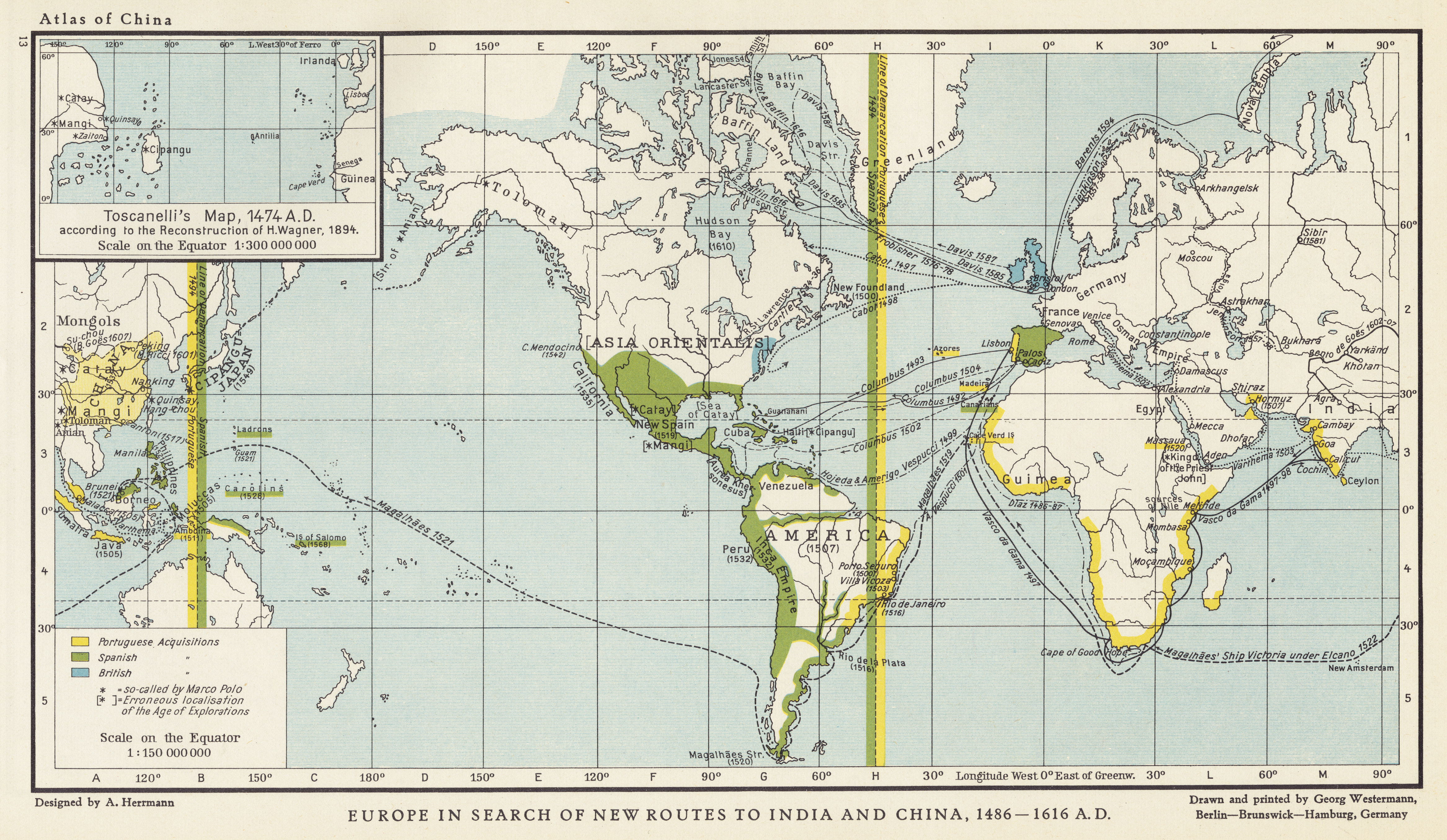 Europe in search of new routes to India and China, 1486-1616 A.D., from Historical and Commercial Atlas of China by Albert Herrmann. Scale: 1:150,000,000.